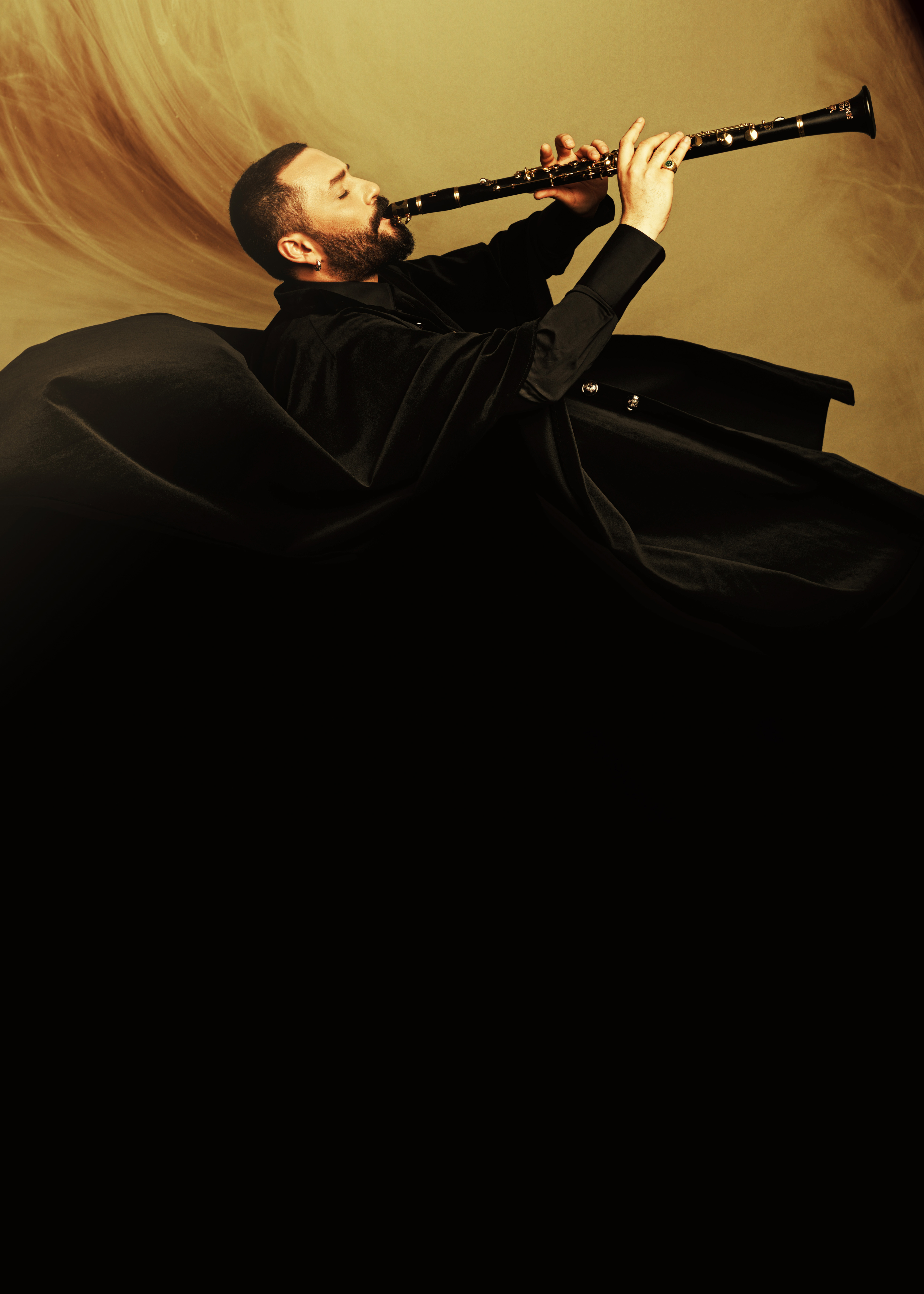 Mehmet Turgut'un çektiği albüm fotoğrafıdır.